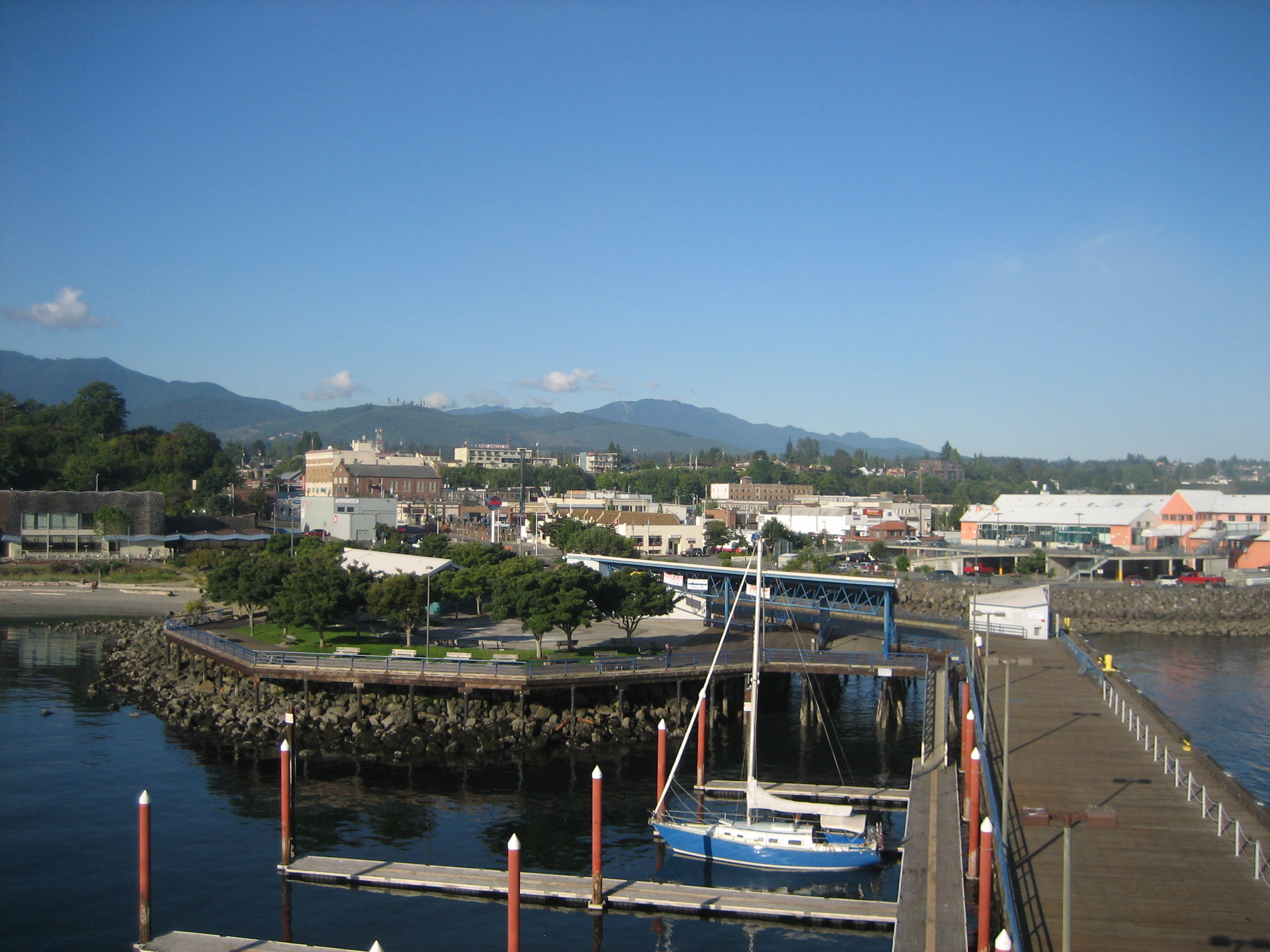 Port Angeles, Washington from the pier tower, early morning August 23rd 2007.